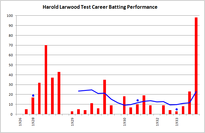 Test career batting chart for Harold Larwood. Blue line is an average for ten most recent innings, blue dots are not outs. Bars are runs scored.